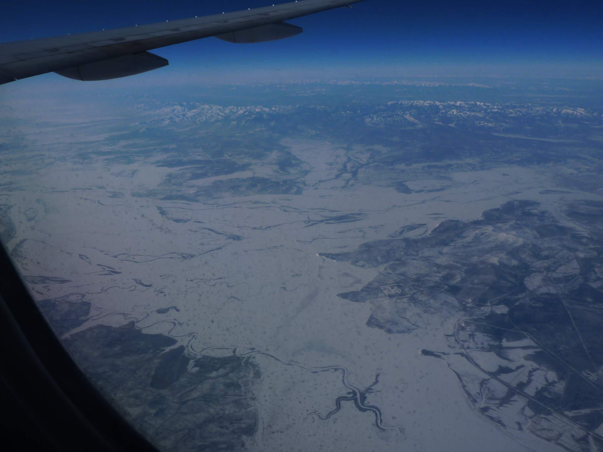 An aerial view of the southern suburbs of Komsomolsk-na-Amure, seen from the east. The city itself, with its Amur River Bridge, and an island downstream from it can be seen in the upper right part of the photo. The Amur runs from center left to upper right. Lake Khummi is in the bottom. Photo taken from an AA aircraft on a non-stop ORD-PVG flight